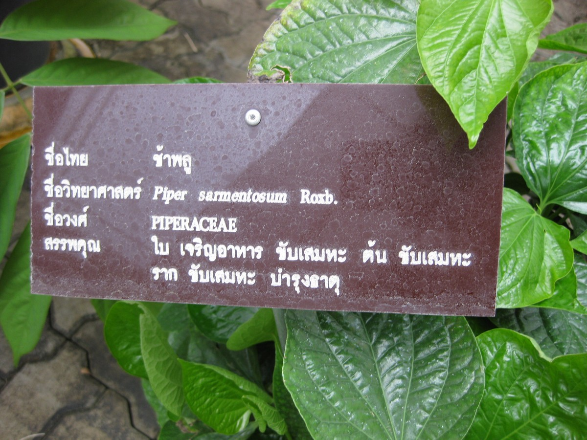 Photographed at the Queen Sirikit Botanic Garden (Chiang Mai Province, Thailand) in March